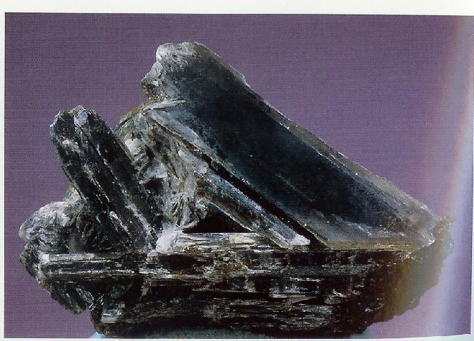 Paralaurionite Locality: Touissit, Touissit District, Oujda-Angad Province, Oriental Region, Morocco (Locality at ) Size: 6 x 5.5 x 5 cm. Paralaurionite is a rare lead species usually occurring as microcrystals. However there was once a find here which redefined the species. This is from that find, an important specimen with huge crystals for the species. Ex. F. John Barlow Collection.